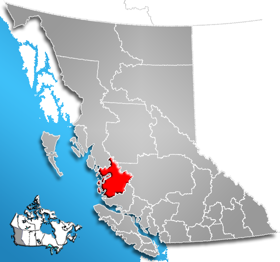 Location of Central Coast Regional District, British Columbia